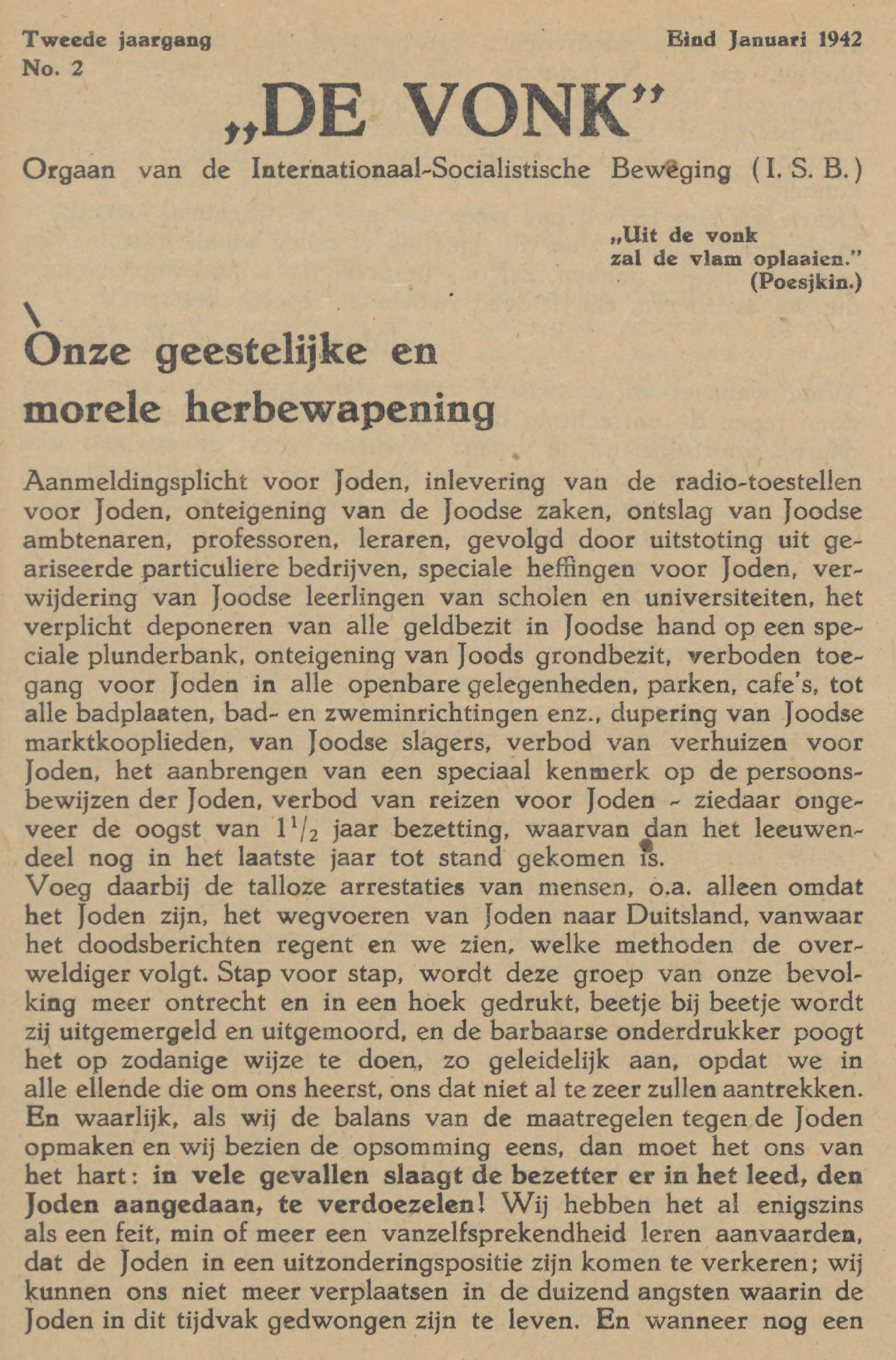 'De Vonk' is the name of several illegal leaflets in the Netherlands during World War II. The corresponding Dutch resistance organization is known as' De Vonk Group.